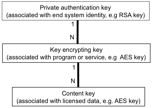 The GDOI Key Ladder or Key Hierarchy